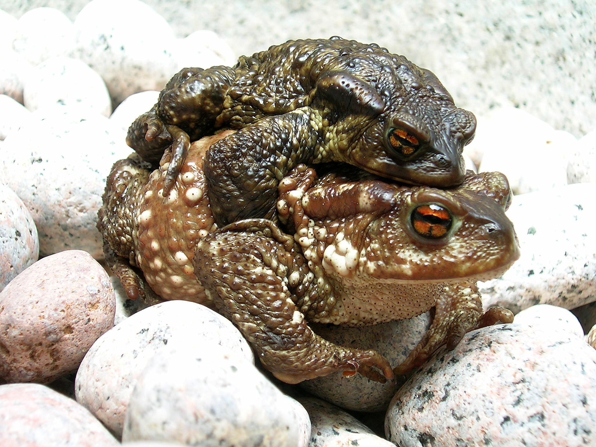 Common Toads (Bufo bufo ssp. spinosus) during migration in the Portuguese national park of Peneda-Gerês.